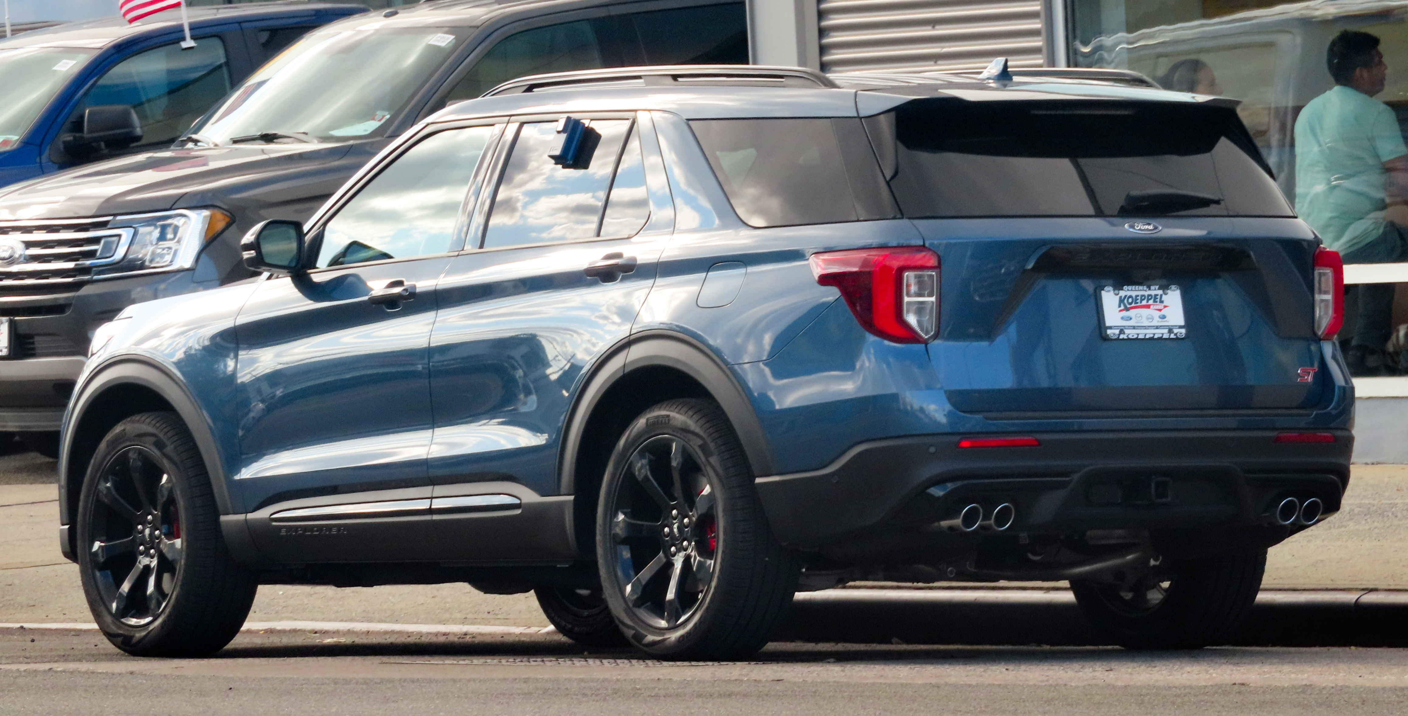 A 2020 Ford Explorer ST photographed in Woodside, Queens, New York, USA